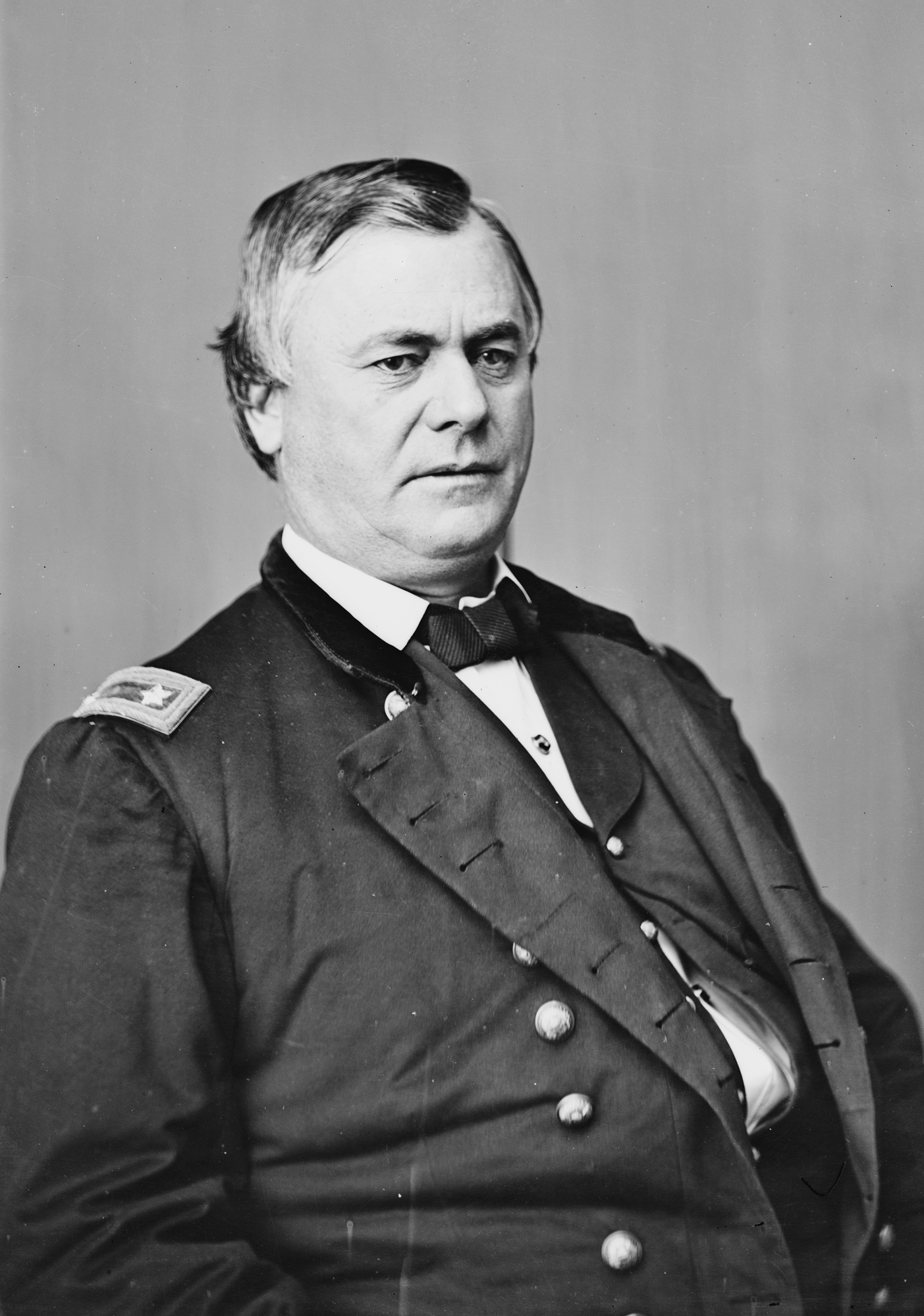 TITLE: Gen. Richard James Oglesby CALL NUMBER: LC-B813- 1755 C[P&P] REPRODUCTION NUMBER: LC-DIG-cwpb-05642 (b&w copy scan) No known restrictions on publication. MEDIUM: 1 negative : glass, wet collodion. CREATED/PUBLISHED: [between 1860 and 1870] NOTES:Title from unverified information on negative sleeve. Forms part of Brady Civil War Photograph Collection (Library of Congress). FORMAT: Portrait photographs 1860-1870. Glass negatives 1860-1870. REPOSITORY: Library of Congress Prints and Photographs Division Washington, D.C. 20540 USA DIGITAL ID: (b&w scan) cwpb 05642